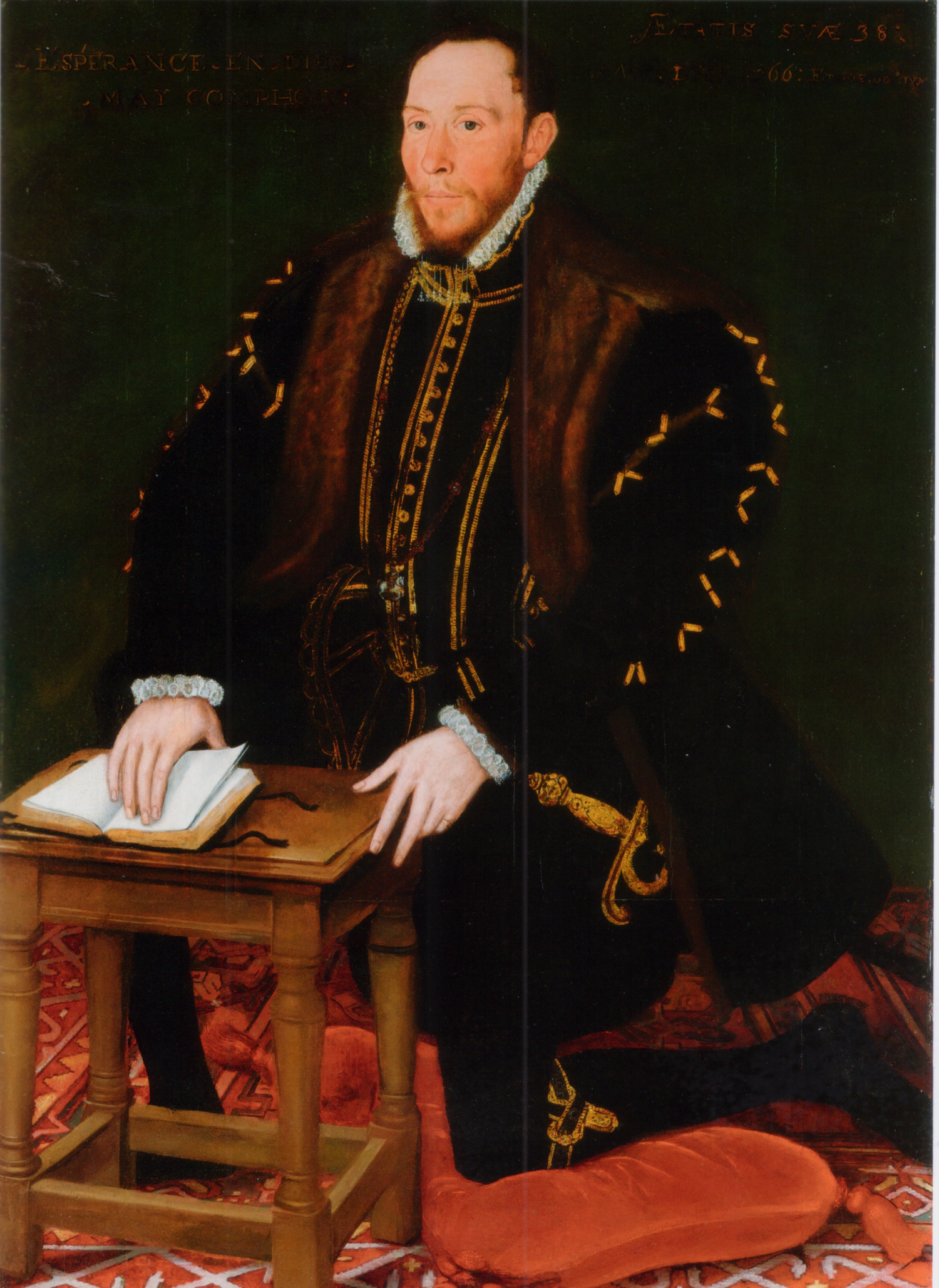 Portrait of Blessed Thomas Percy, 7th Earl of Northumberland (1528-1570, at full length, kneeling on a cushion, wearing a black doublet with a fur trimmed cloak, a white ruff and the Order of the Garter collar and garter, reading a prayer book.